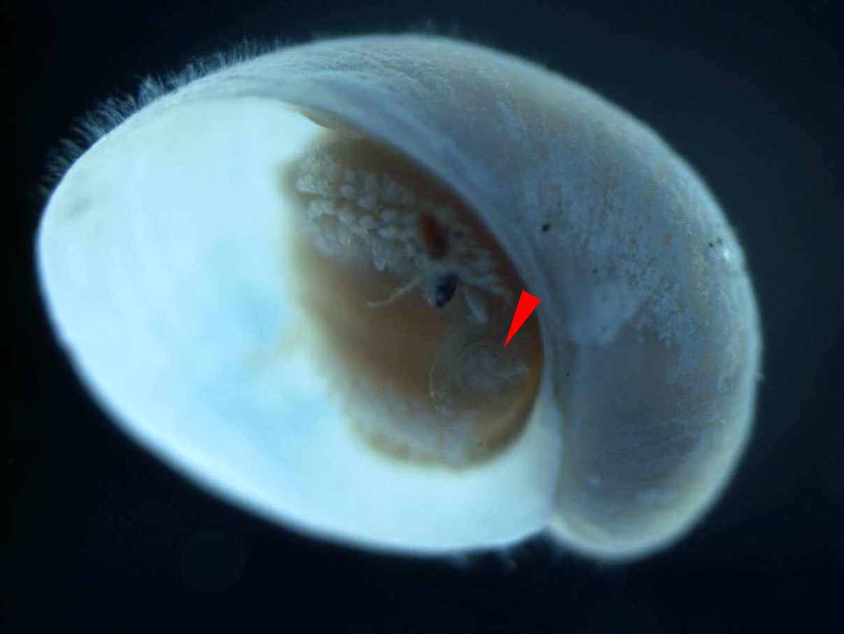 Photo of a ventral view of juvenile of Chrysomallon squamiferum with operculum indicated by red arrowheads. Shell length is about 2 mm.